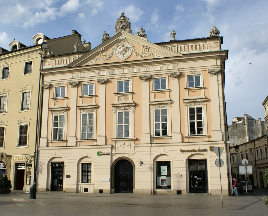 Outside view of the Goethe Institute of Cracow, Poland